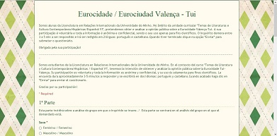 this is a questonary made for the sake of the eurocity valença tui